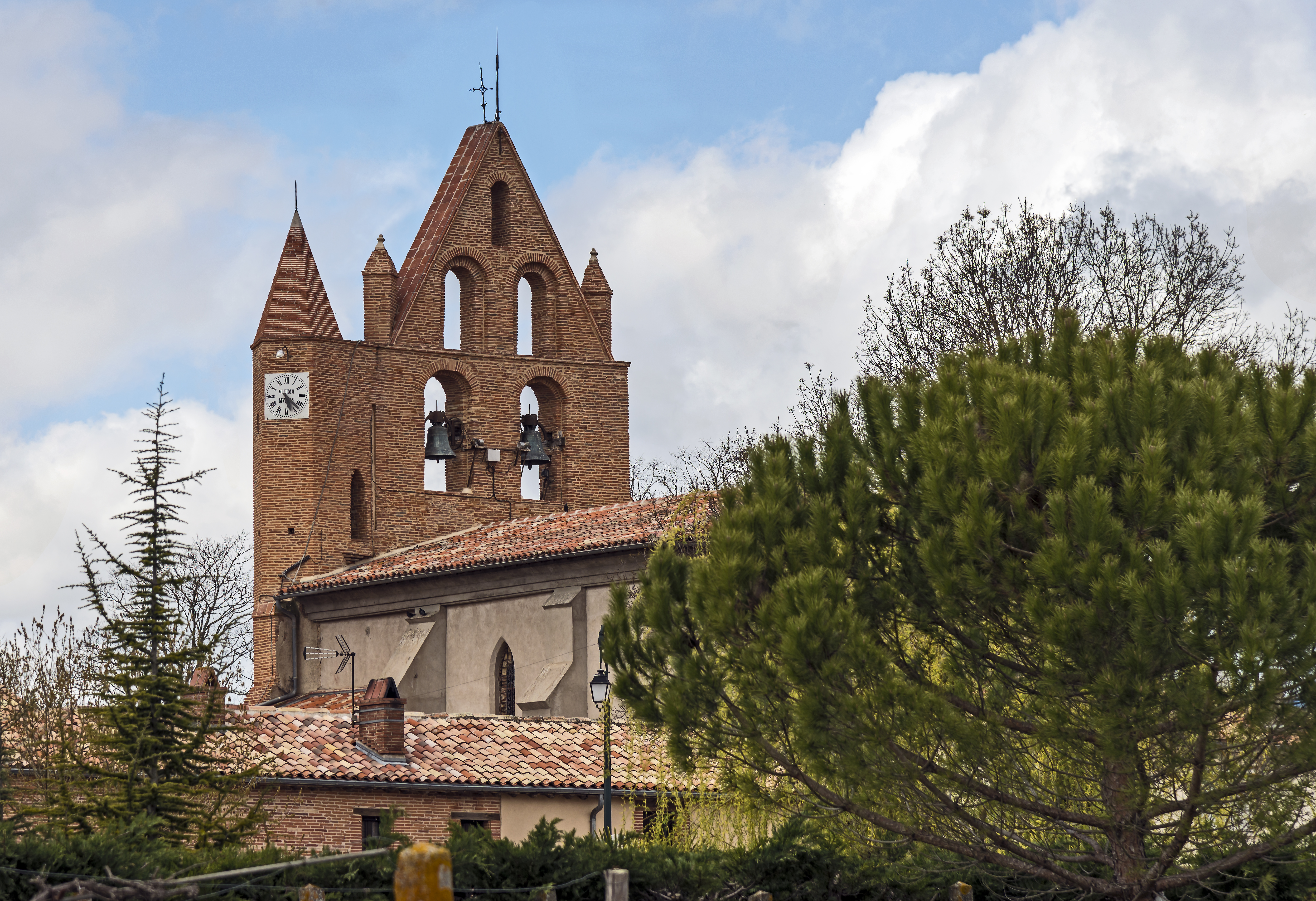 Church St. Peter in Bazus, Haute-Garonne, France. Bell gable.